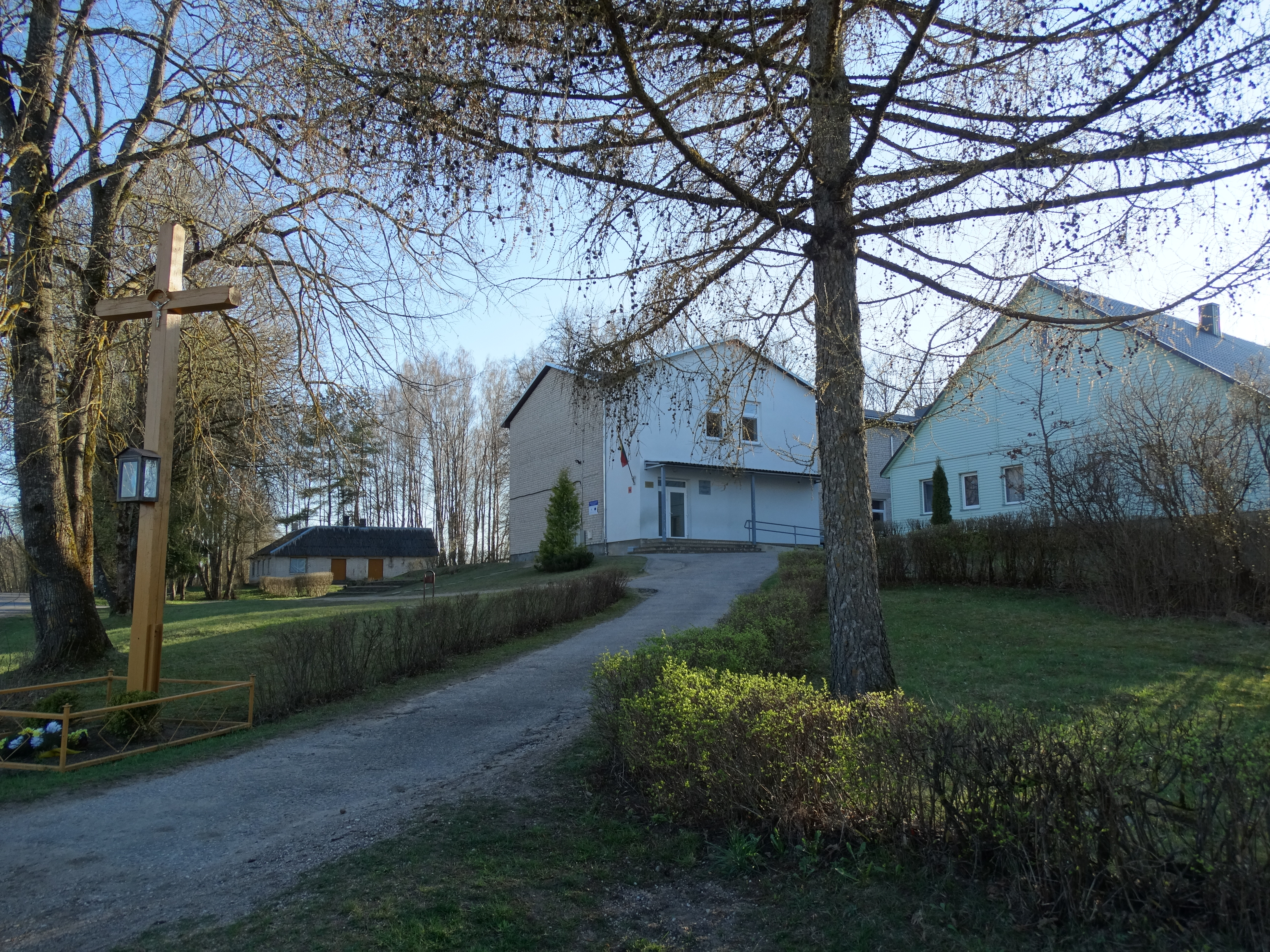 Basic school, Eitminiškės, Vilnius district, Lithuania